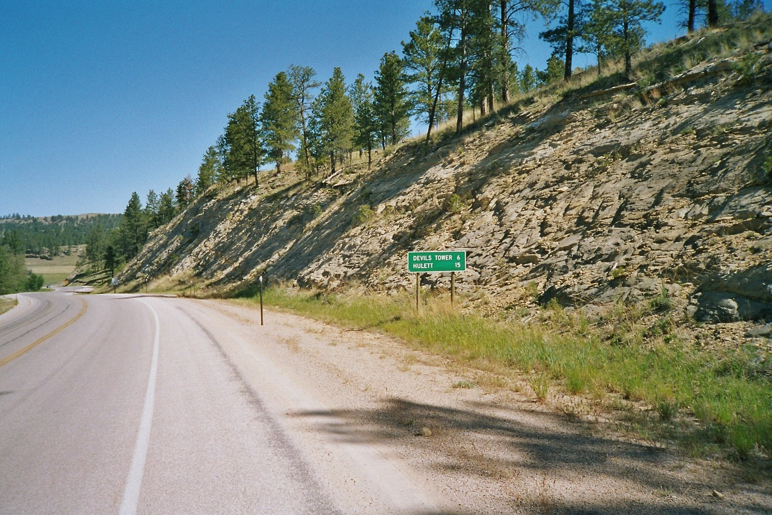 US14 north to Devils Tower